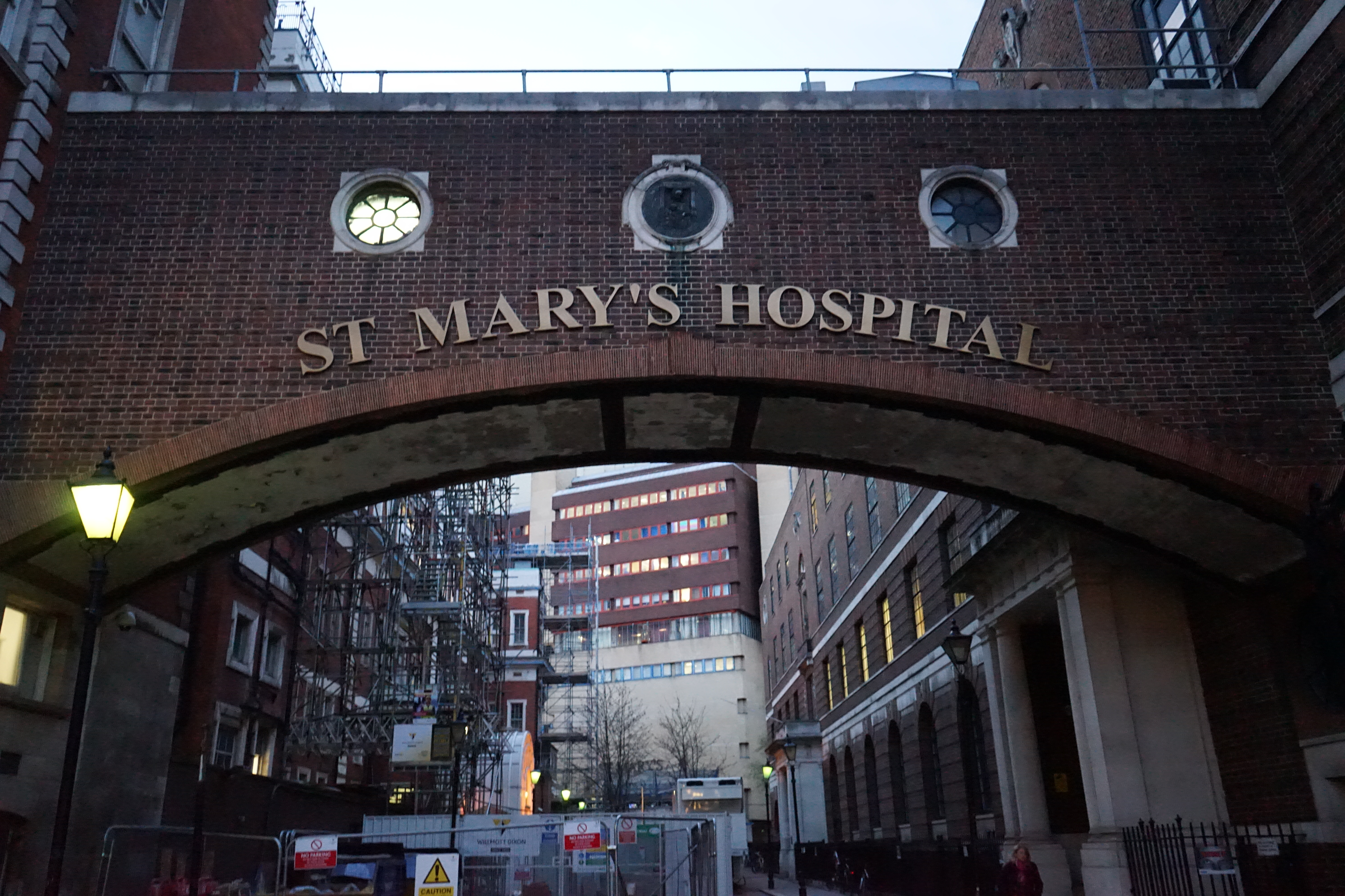 St Mary's hospital in Paddington London.